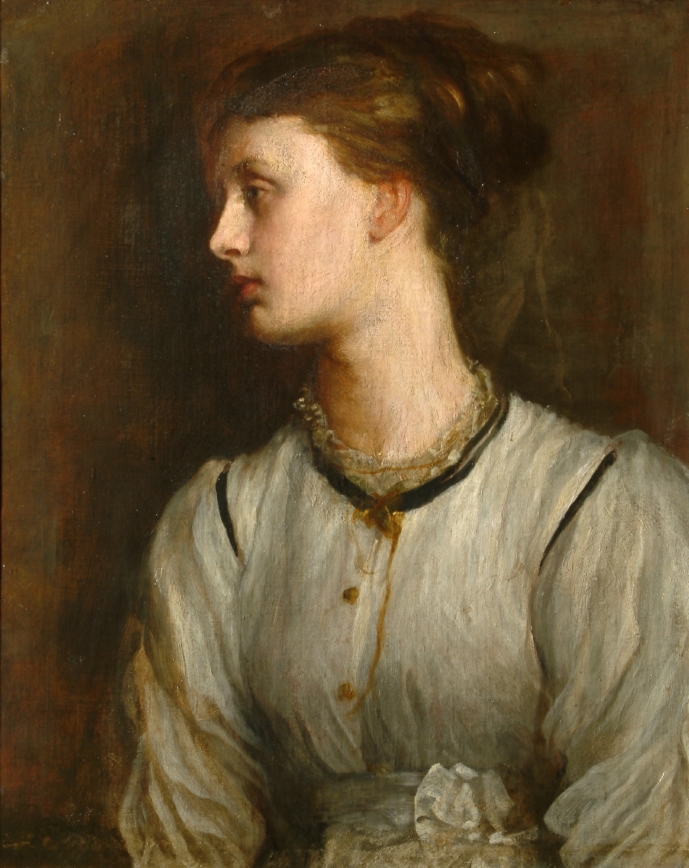 Portrait of Miss May Prinsep by the English painter George Frederic Watts. Date painted: 1867-1869. Oil on canvas. 66 cm x 53.3 cm. Courtesy of the collection of the Watts Gallery.